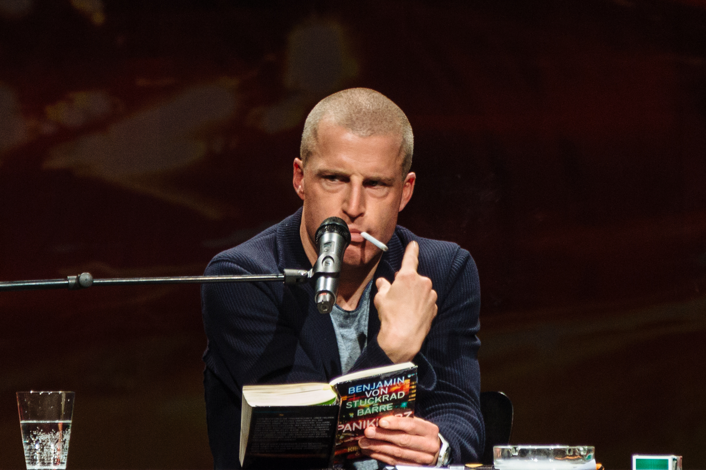 Benjamin von Stuckrad-Barre during an Event in Braunschweig in 2016